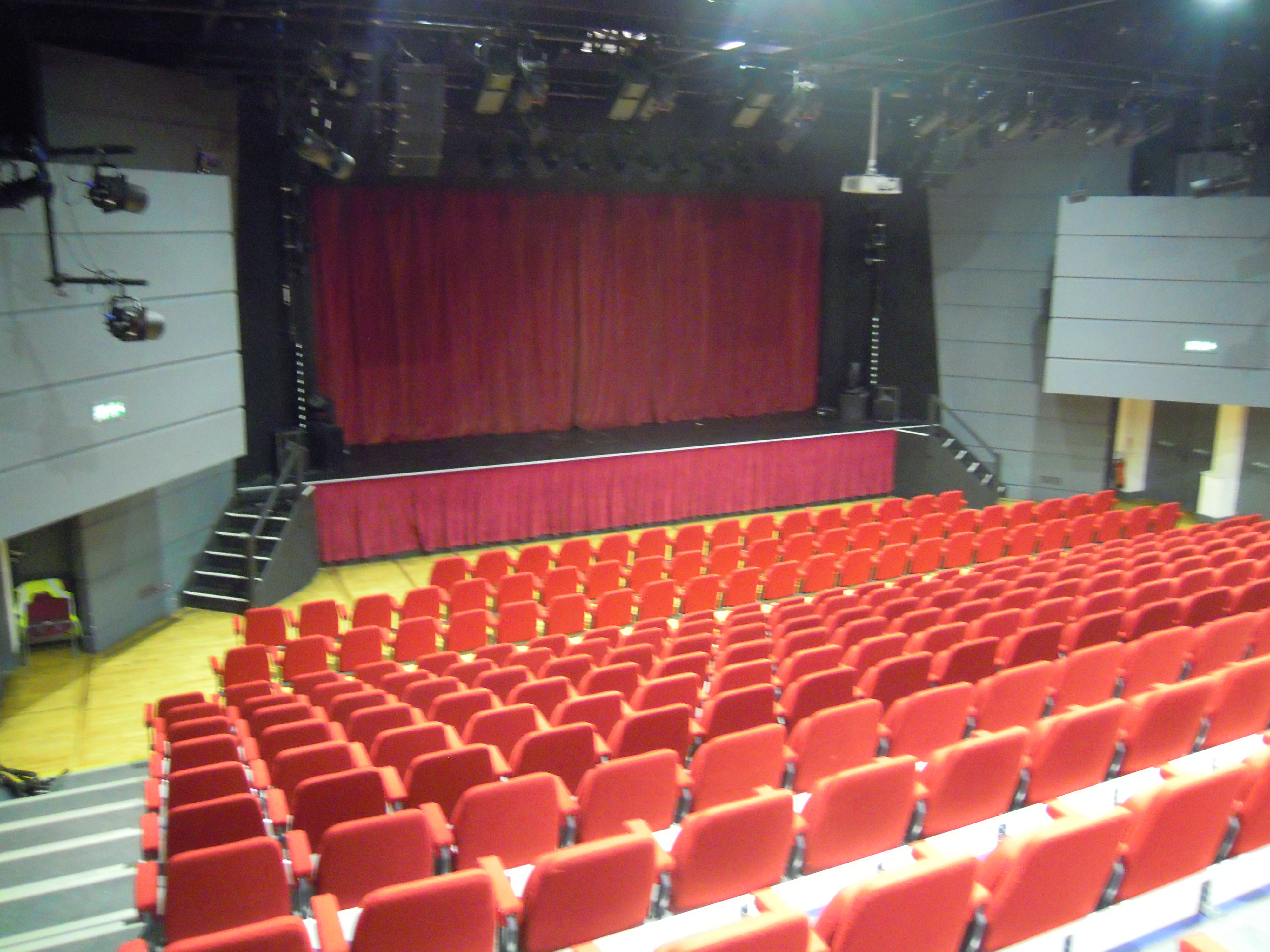 The auditorium of Camberley Theatre in Camberley in Surrey in 2019